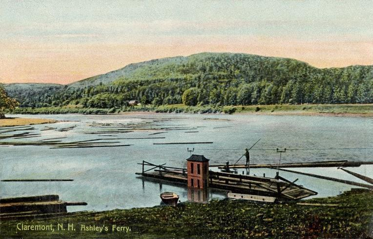 Ashley's Ferry, Claremont, New Hampshire. Established by Col. Joseph I. Hubbard, the Connecticut River ferry between Claremont and Weathersfield, Vermont was taken over by Oliver Ashley in 1784. The site is now Ashley's Ferry boat ramp.